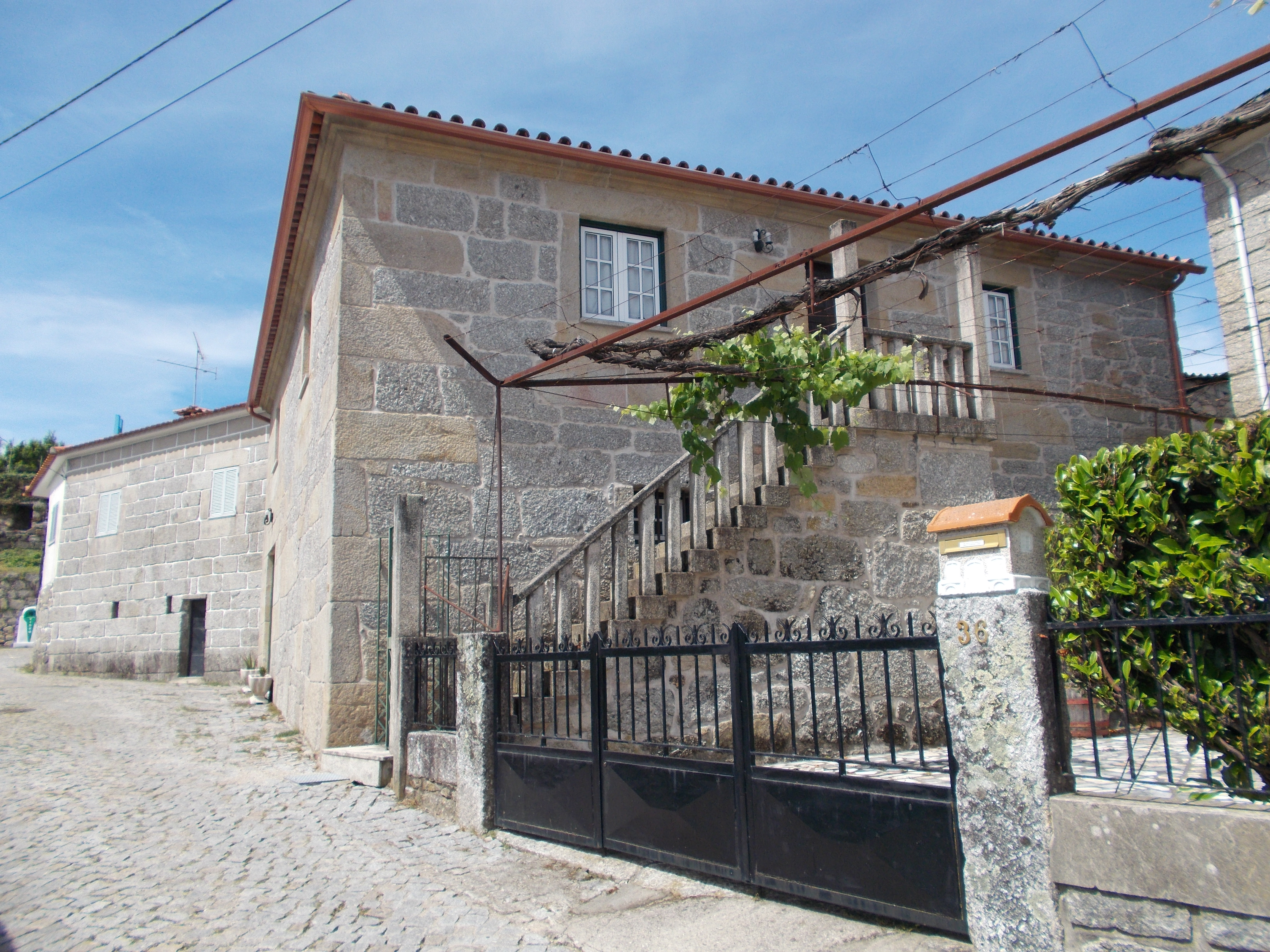 Paço de Lanhoso